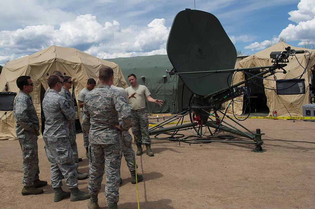 SCHRIEVER AIR FORCE BASE, Colo. -- Senior Airman Alexander Zeiler, 379th Space Range Squadron radio frequency technician, instructs fellow Airmen on methods for operating a L-3 Communications satellite signal receiver during field training exercises May 6, 2017. Portable And Transportable Satellite Terminal for communication at the operational and tactical level operates in three frequency ranges: C, X and Ku band. The exercise took place at the United States Air Force Academy's Field Engineering Readiness Laboratory (FERL Village). (U.S. Air Force photo/Staff Sgt. Christopher Moore)